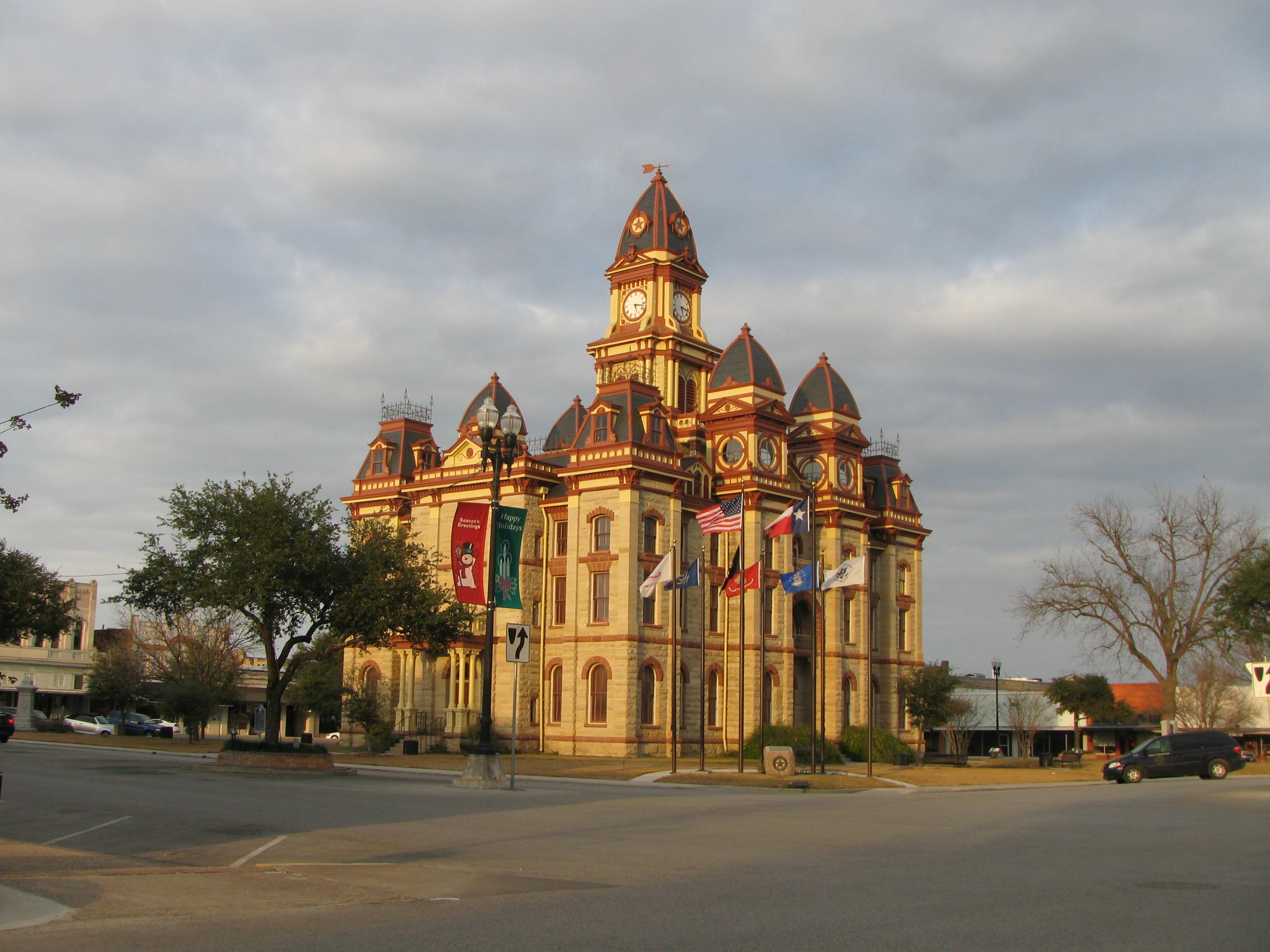 The Caldwell County Courthouse in Lockhart, Texas. See also Caldwell County Courthouse.jpg